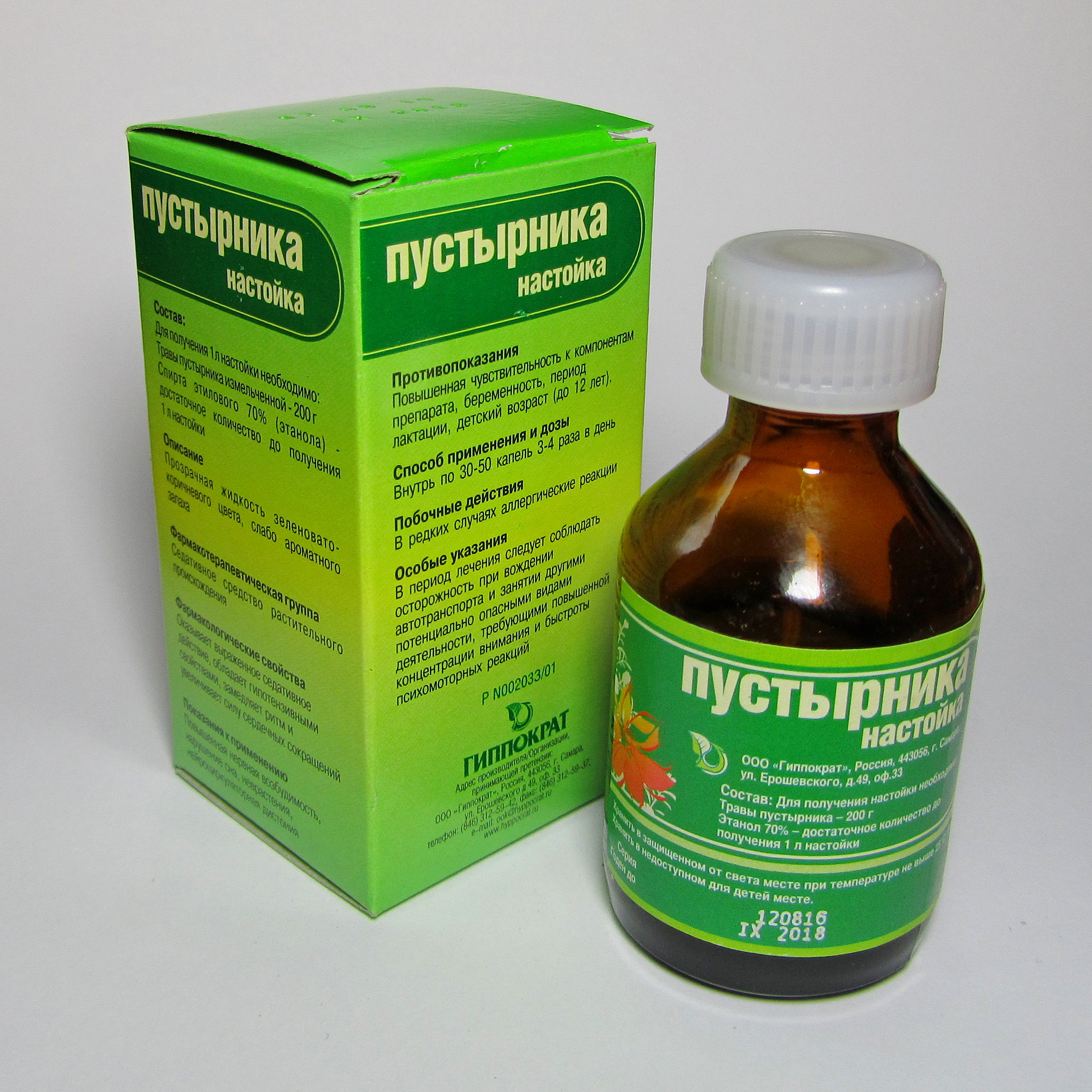 Leonurus Herbal Tincture